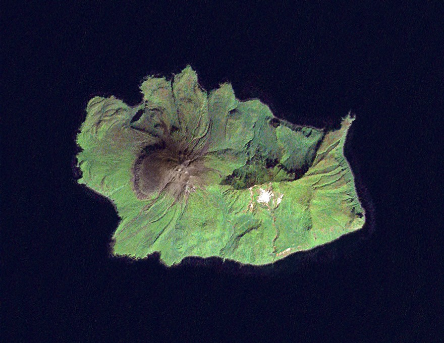 Landsat 7 image of the Kuril Island of Ekarma, 14.25 meter resolution. Based on Global Orthorectified Landsat dataset (ETM+); WRS_PATH 101, WRS_ROW 026. Generated using panchromatic band for intensity, and color from "true-color" combination of 28.5 meter resolution bands 3, 2, & 1 (as R, G, B respectively). Data combined and color curves enhanced in the Gimp.